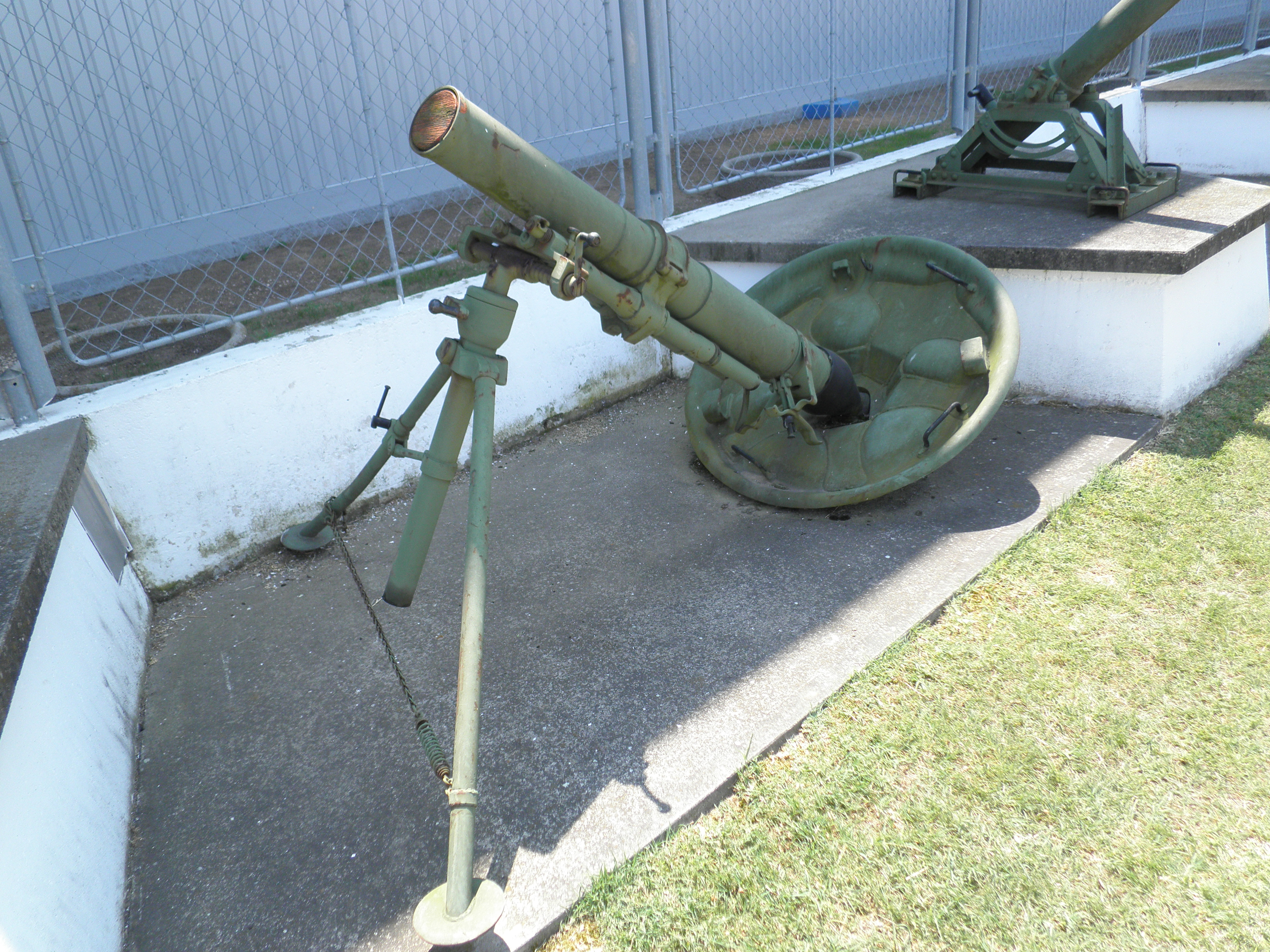 120 mm mortar PM38 in Army History Museum and Park in Kecel, Hungary